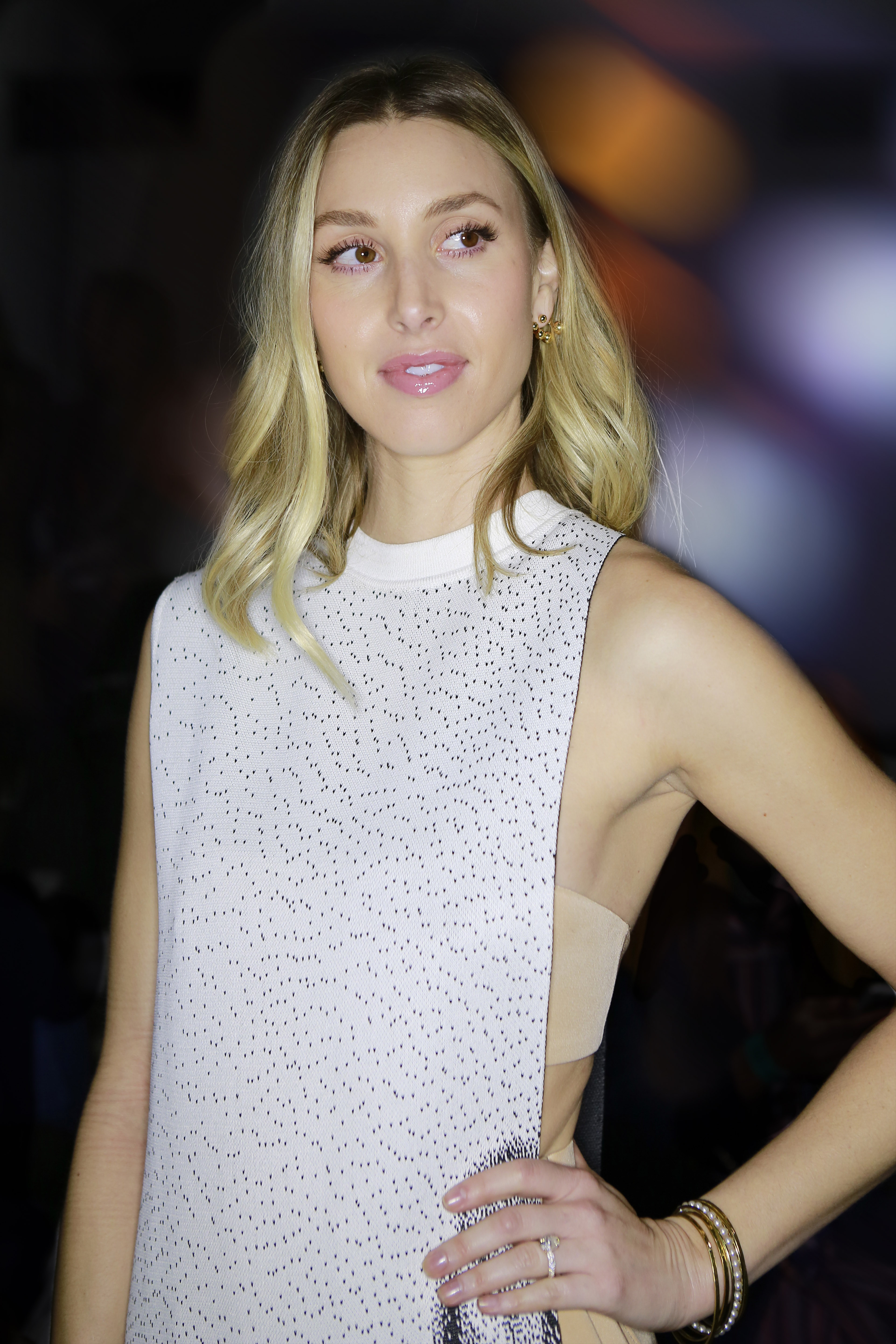 Actress- Model